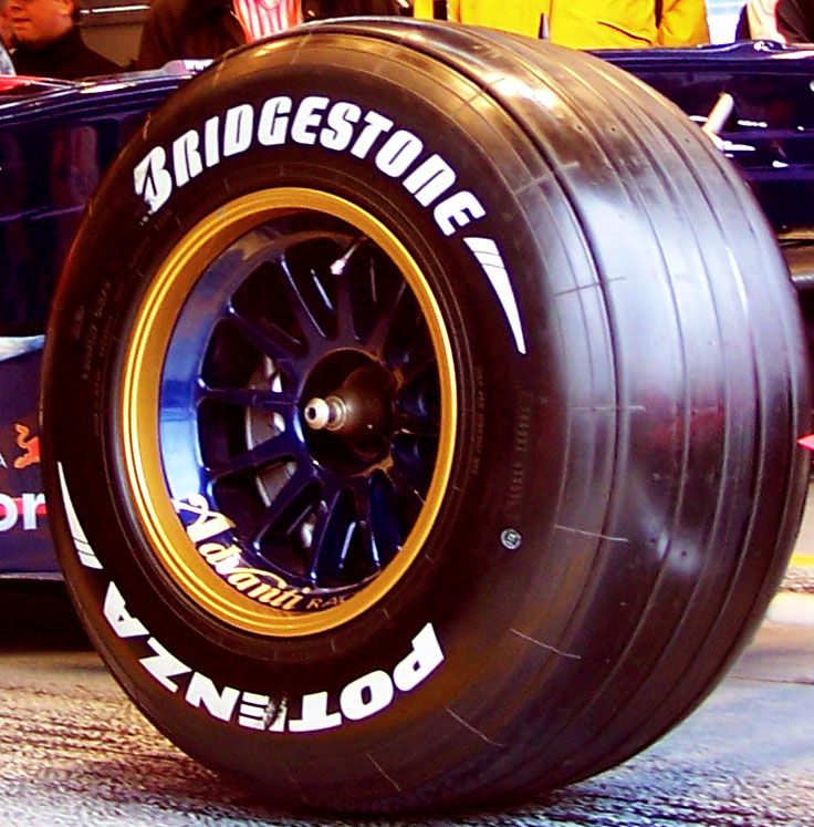 Opnaf1